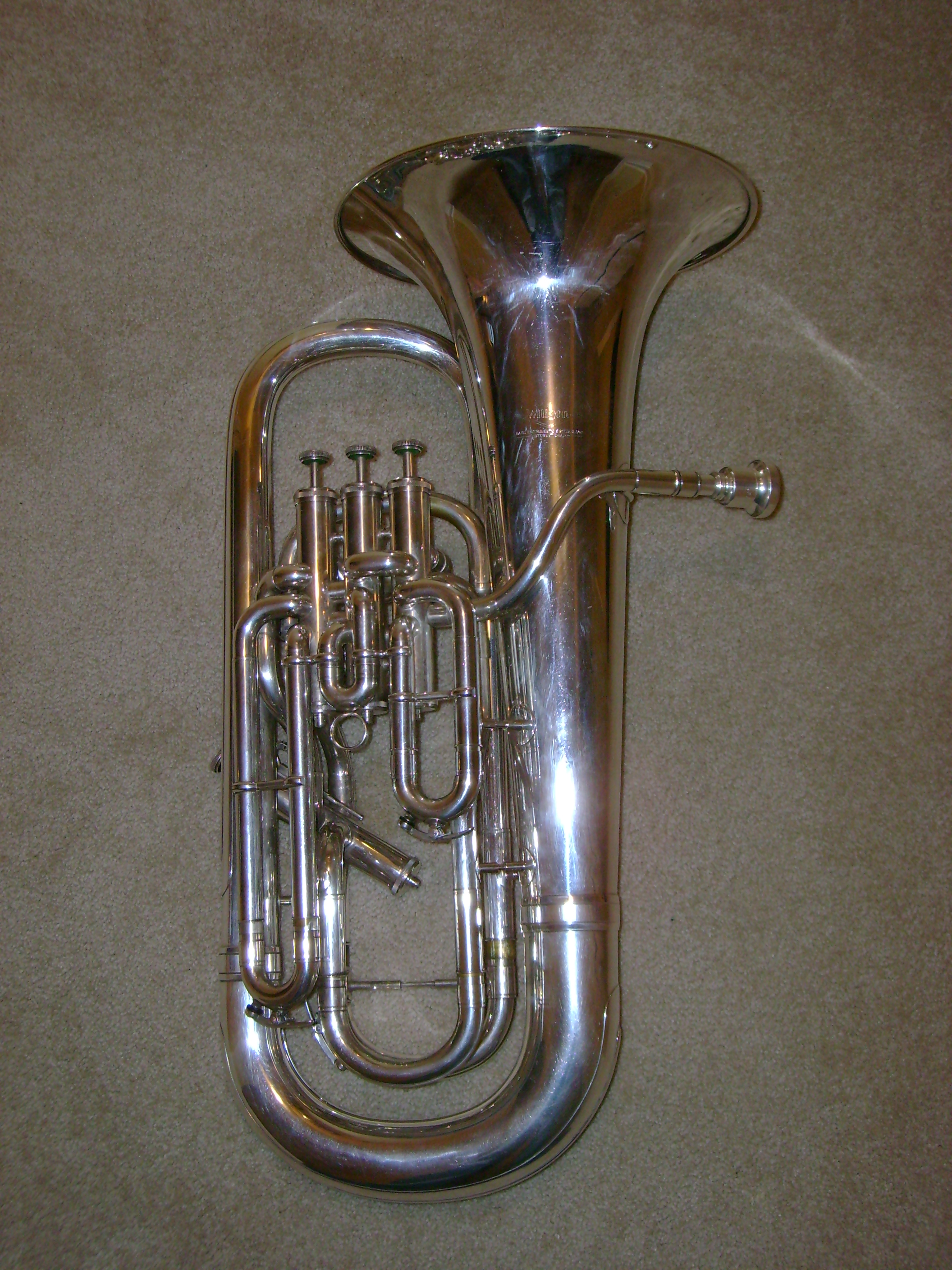 picture of my Willson 2900 euphonium by Robert McDaniel